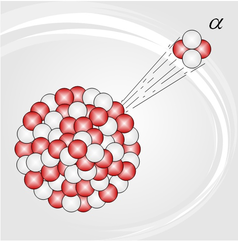 Alpha decay